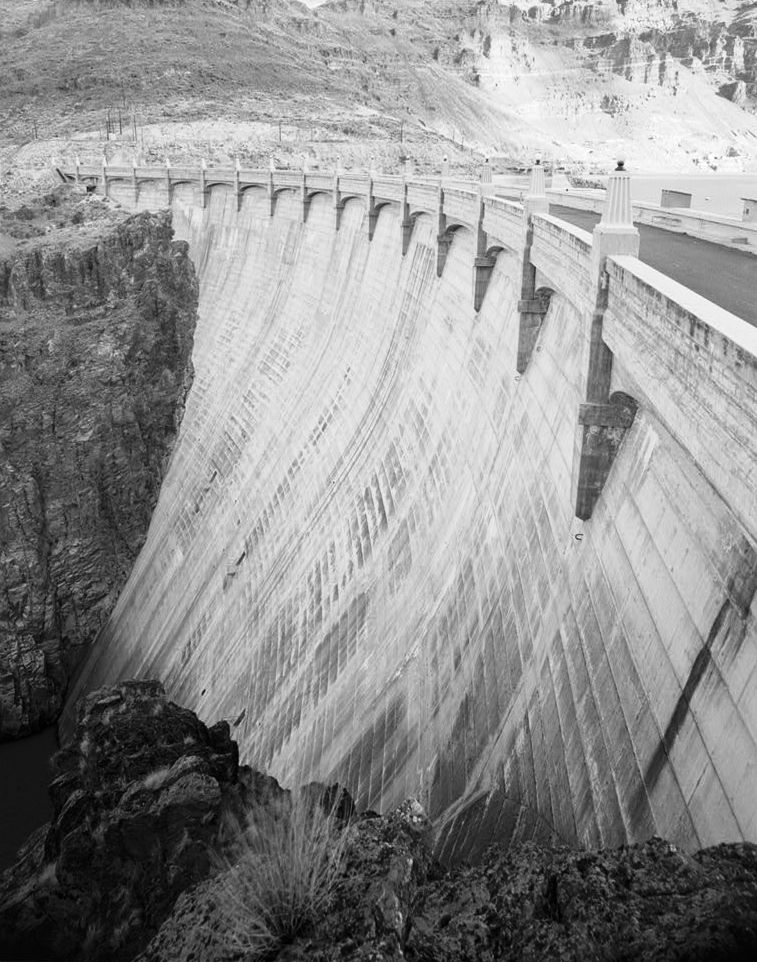 Owyhee Dam side view. DETAIL OF DOWNSTREAM FACE OF DAM FROM WEST ABUTMENT. VIEW TO NORTHEAST.